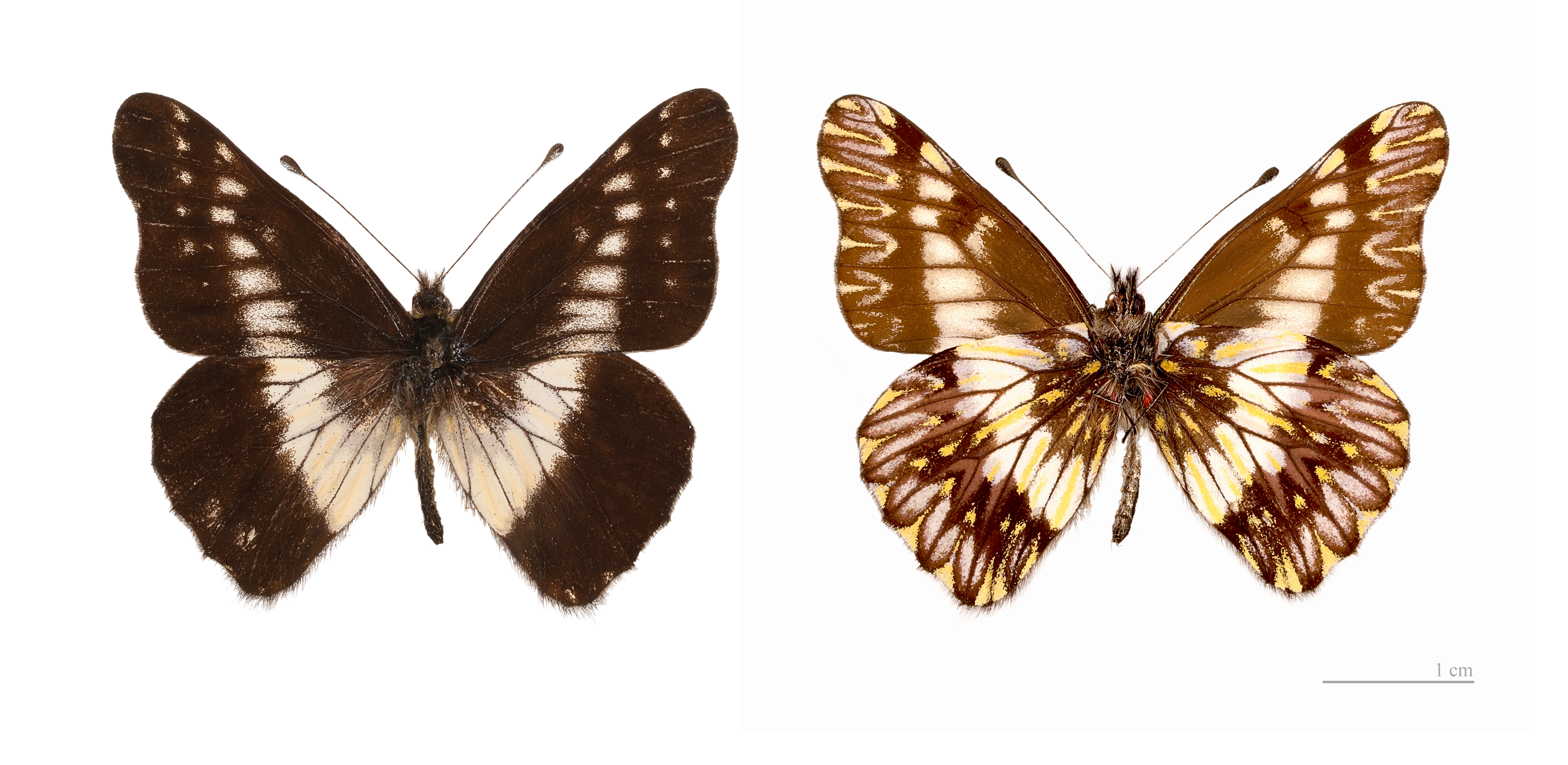 ♂ - Two views of same specimen Locality : Amazonas Region, North of Peru.